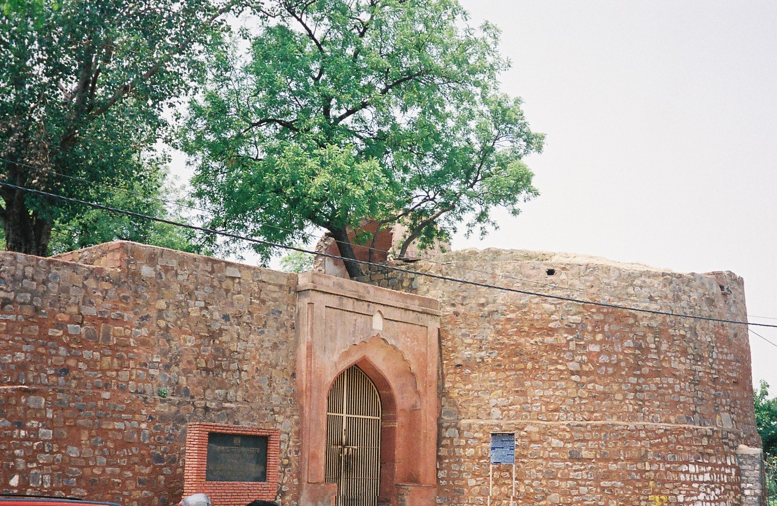 Entry Gate to Salimgarh Fort from the Yamuna River side